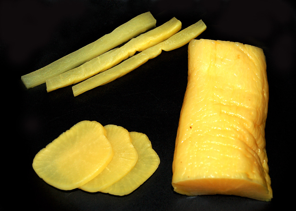 Takuan, japanese pickle made of white radish